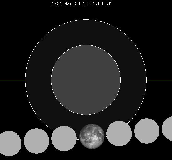 Lunar eclipse chart of moon's path through the earth's shadow. thumb